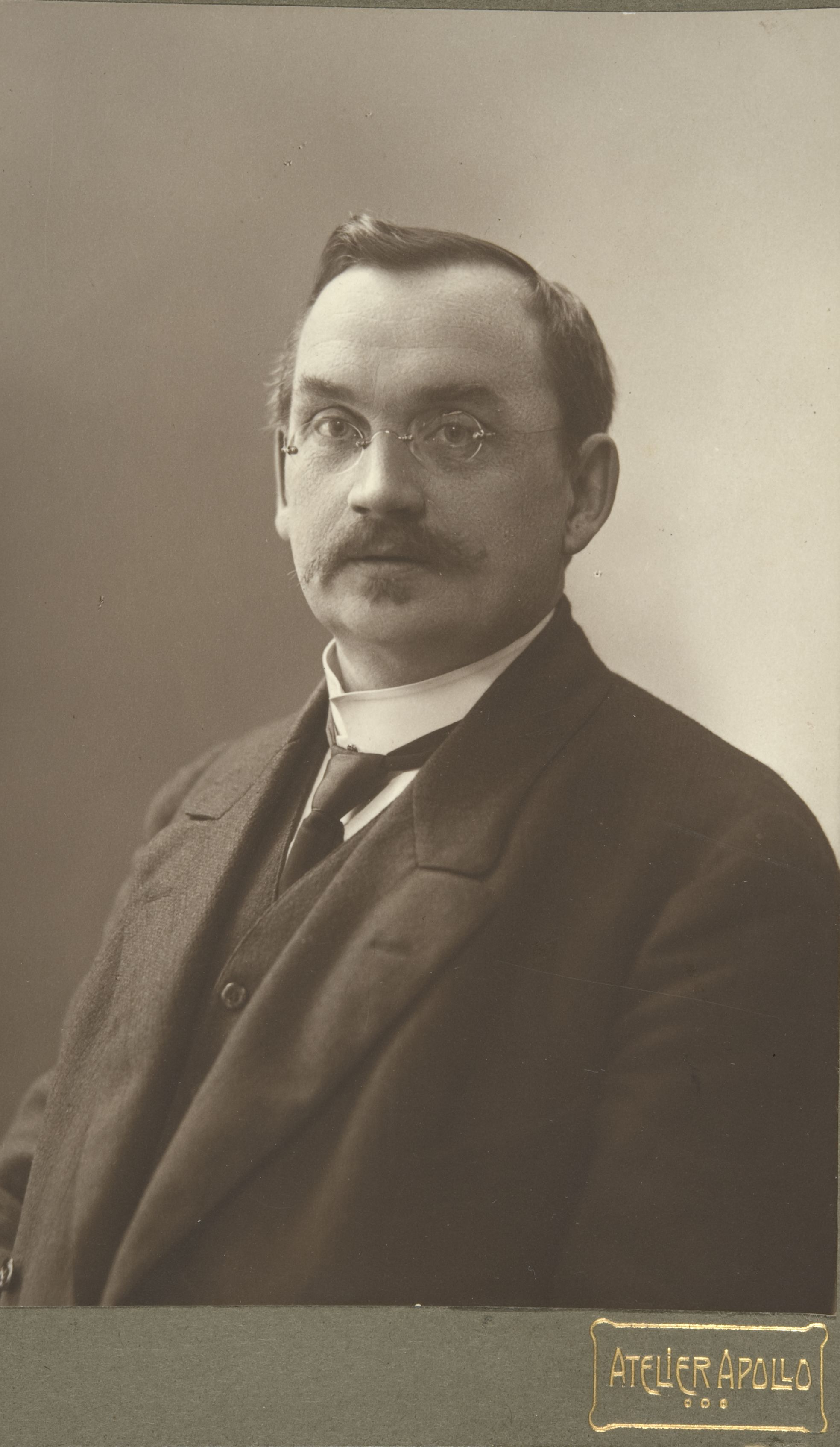 Photograph of the Finnish writer and politician Akseli Rauanheimo (1871–1932).